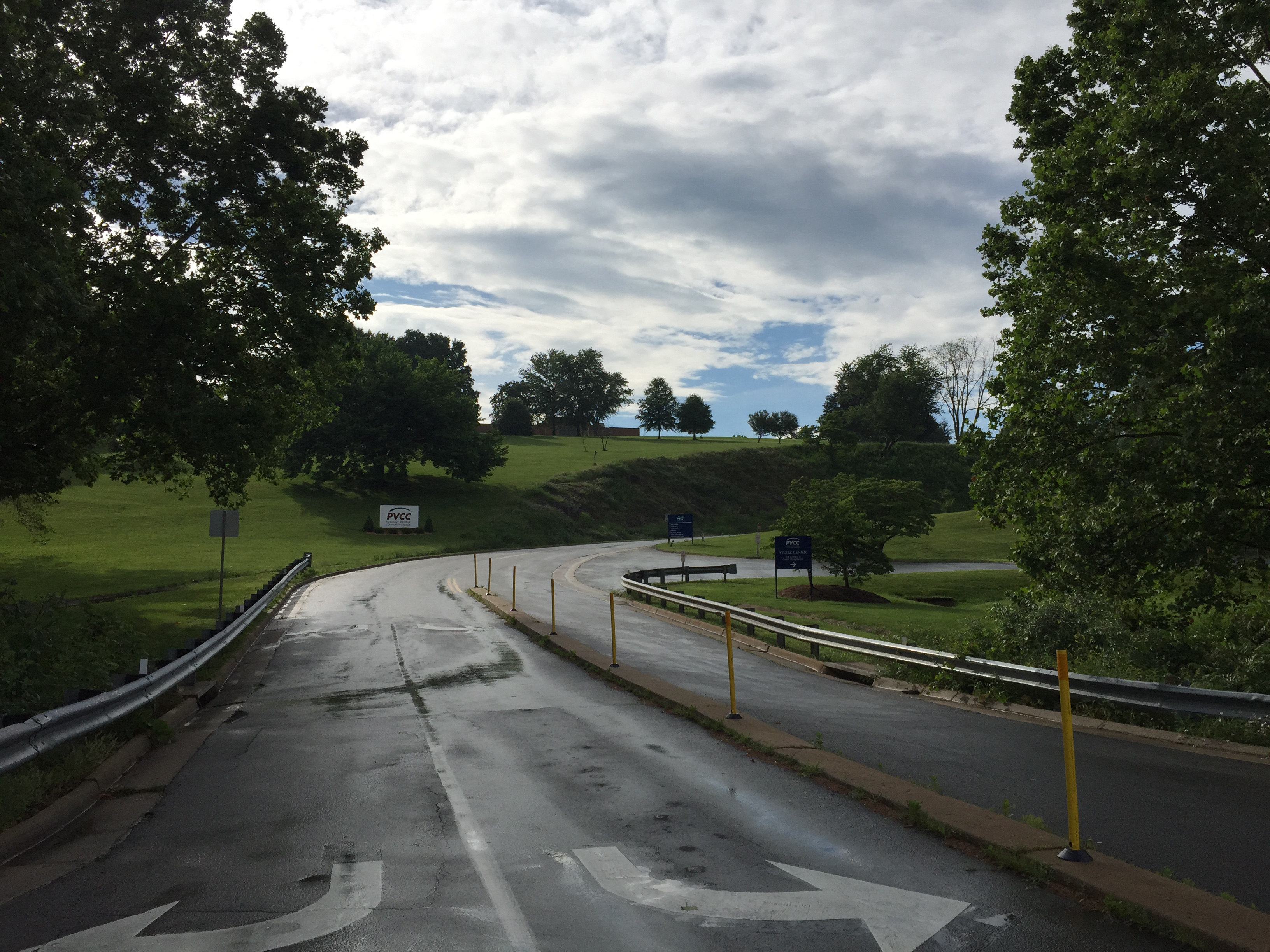 View west from the east end of Virginia State Route 388 (College Drive) just south of Charlottesville in Albemarle County, Virginia